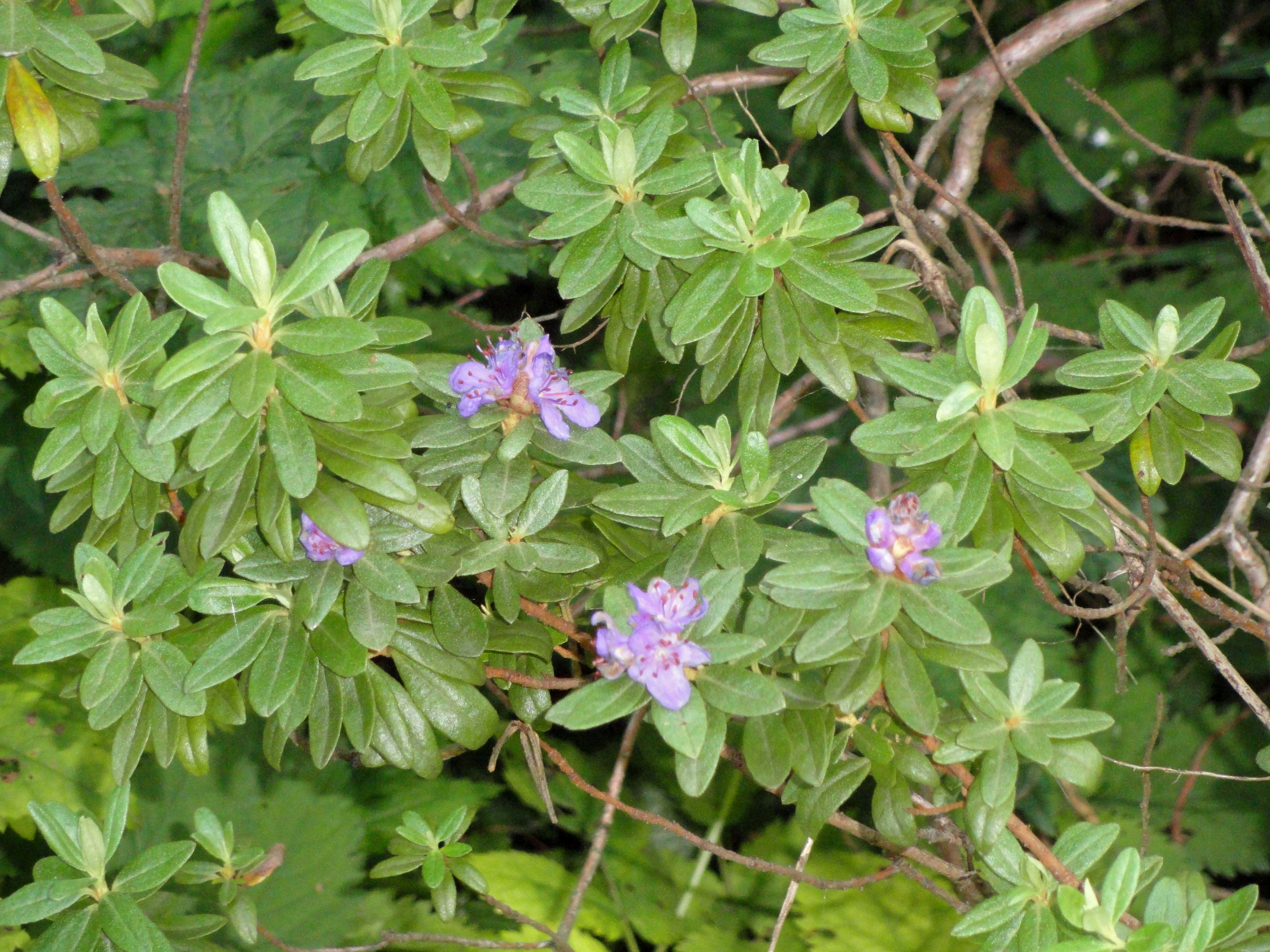 Botanical specimen in the Botanischer Garten, Frankfurt am Main, Germany.